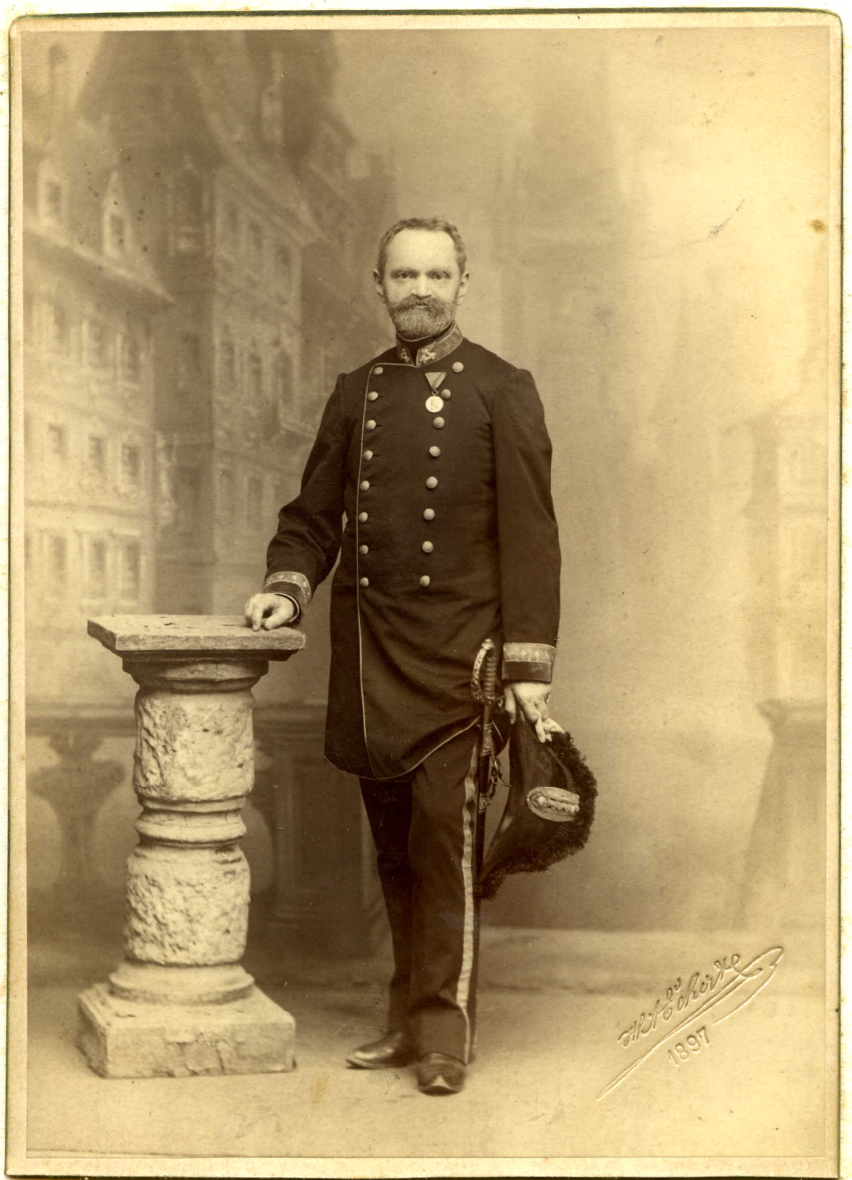 Prof. Otto Keller in Prag, 1898